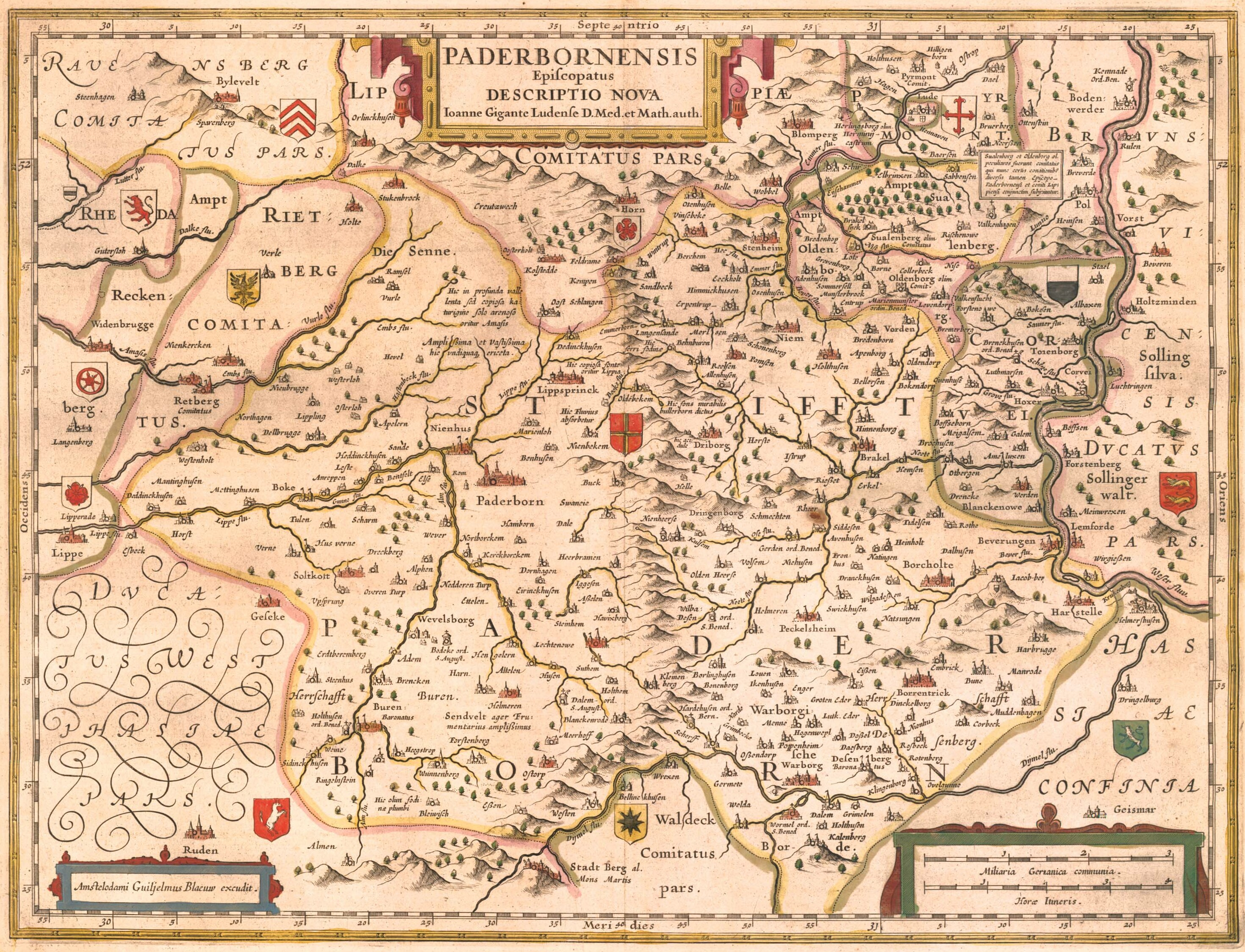 Paderbornensis Episcopatus descriptio nova (Bishopric of Paderborn)from"Theatrum Orbis Terrarum, sive Atlas Novus in quo Tabulæ et Descriptiones Omnium Regionum, Editæ a Guiljel et Ioanne Blaeu"(Theater of the World, or a New Atlas of Maps and Representations of All Regions, Edited by Willem and Joan Blaeu), 1645.